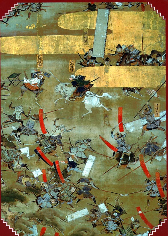 Takeda Shingen deflects Uesugi Kenshin's stroke in a battle during the Sengoku period. Old Japanese painting.